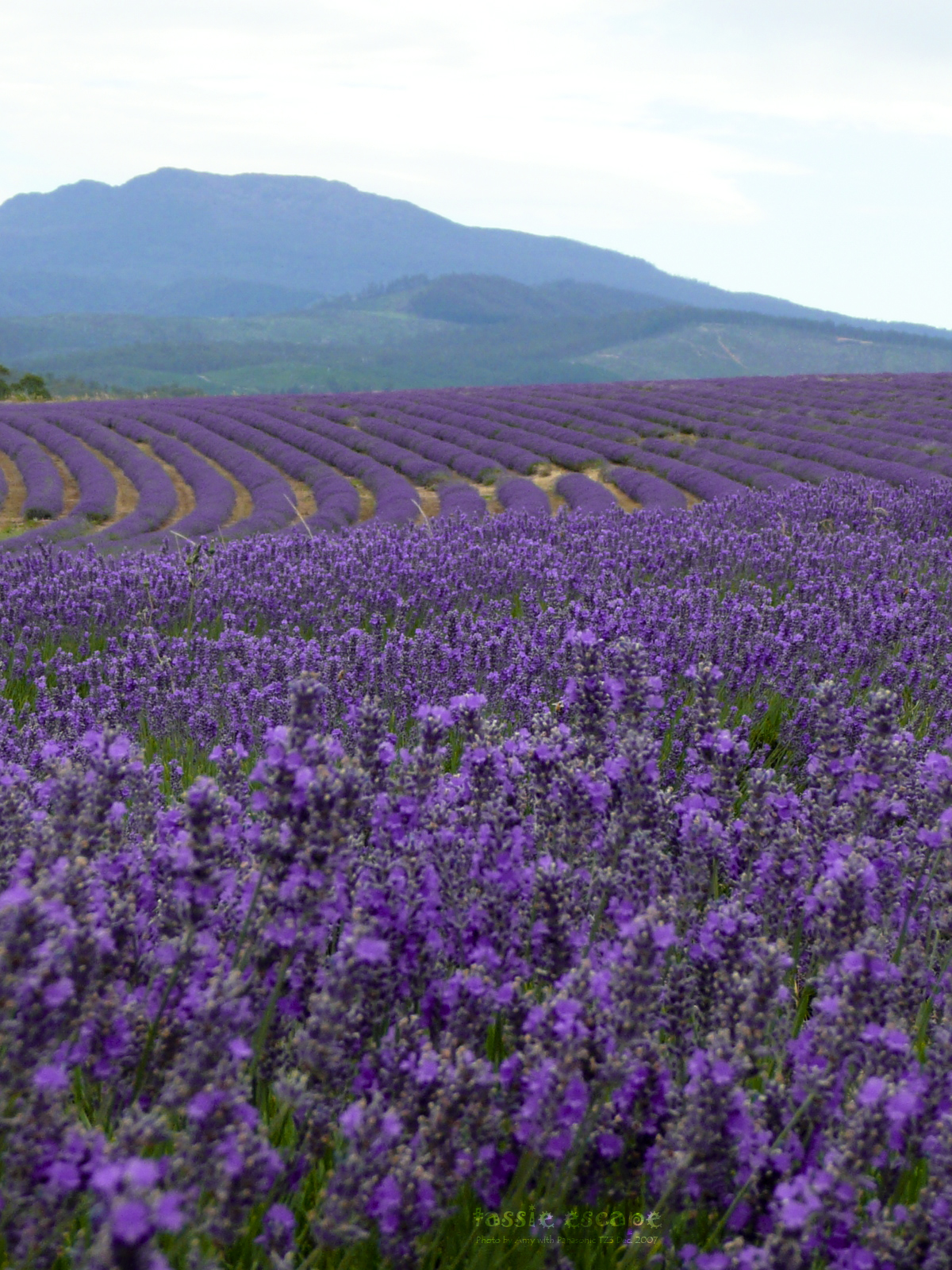 Lavender farm in Tasmania, Australia